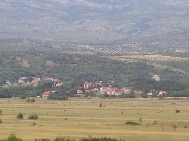 Otavice, Croatia.